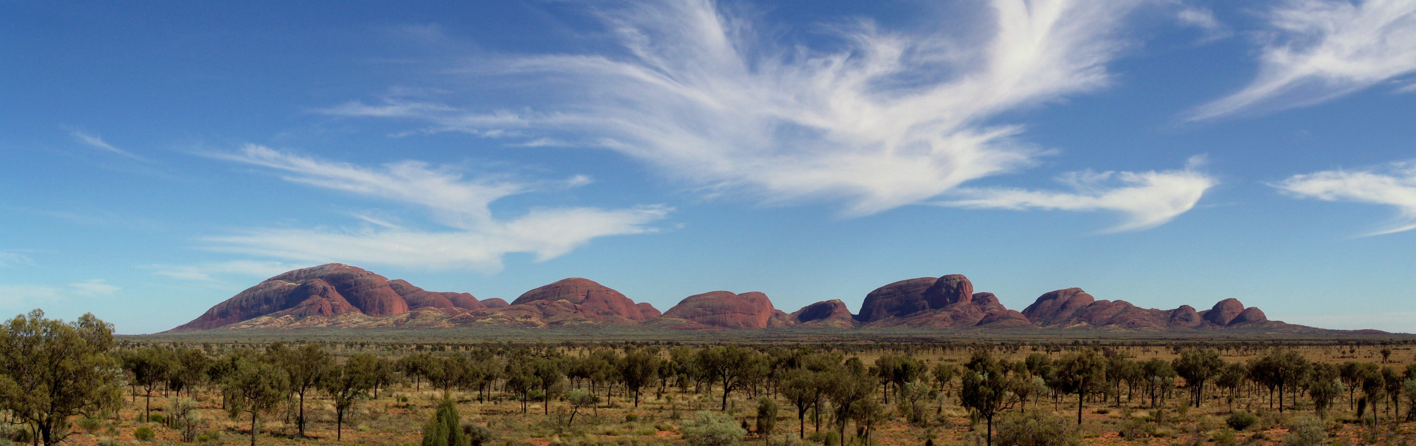 Kata Tjuta or the Olgas is a rock formation near Uluru/Ayers Rock. Panorama of three landscape images.